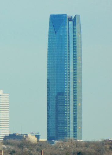 Devon Tower viewed from the northwest.